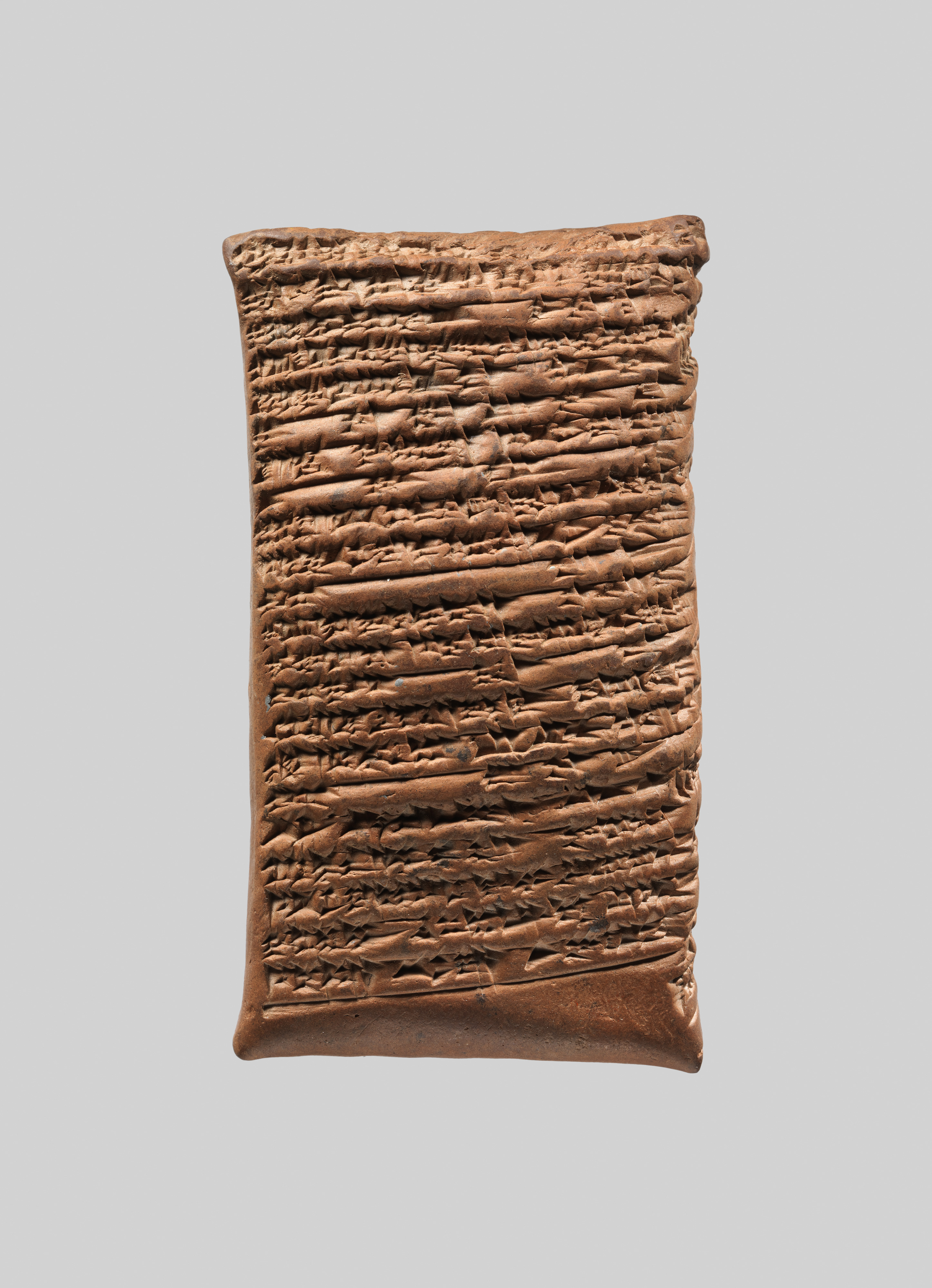 Babylonian; Cuneiform tablet; Clay-Tablets-Inscribed